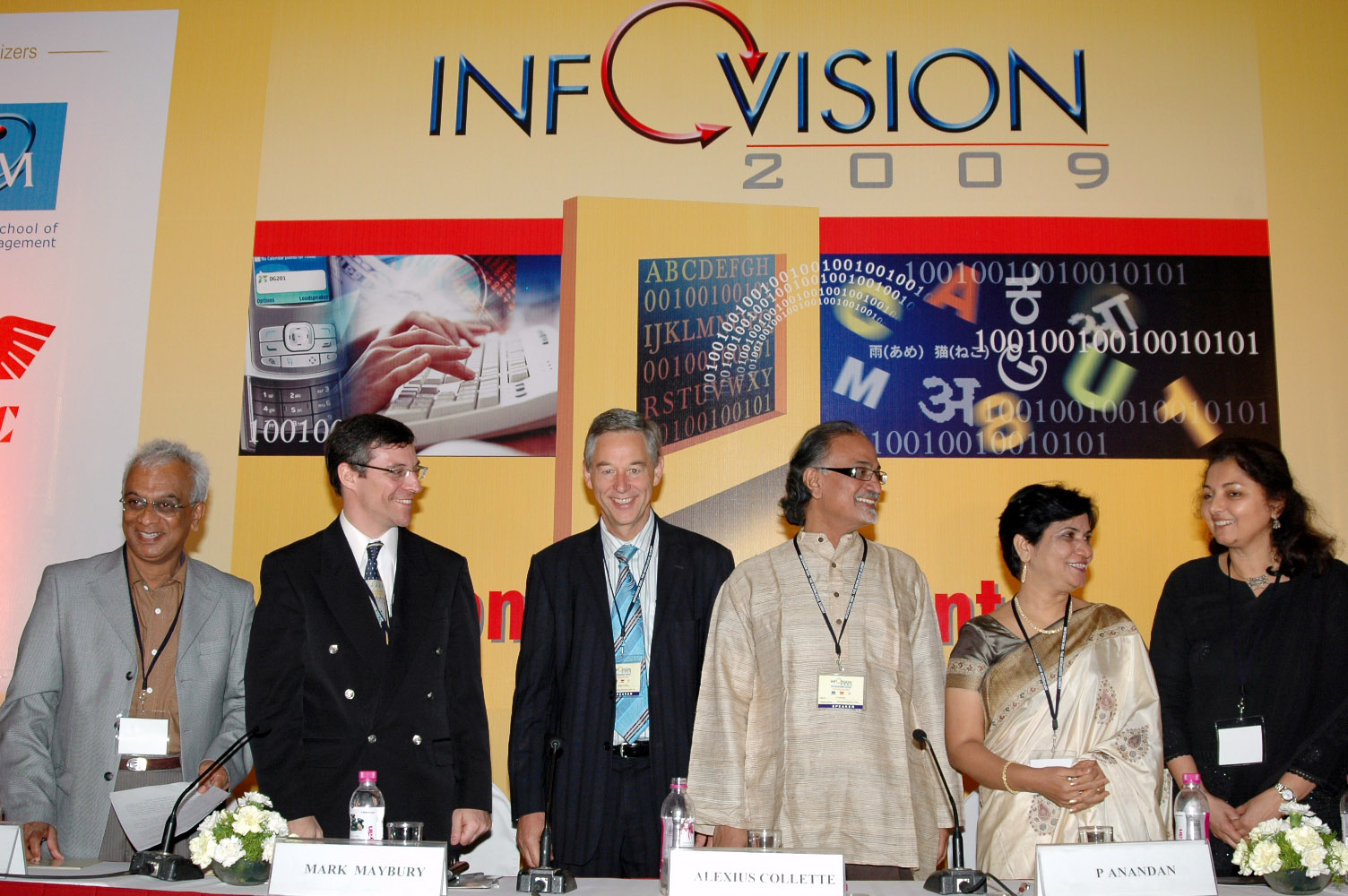 Infovision 2009